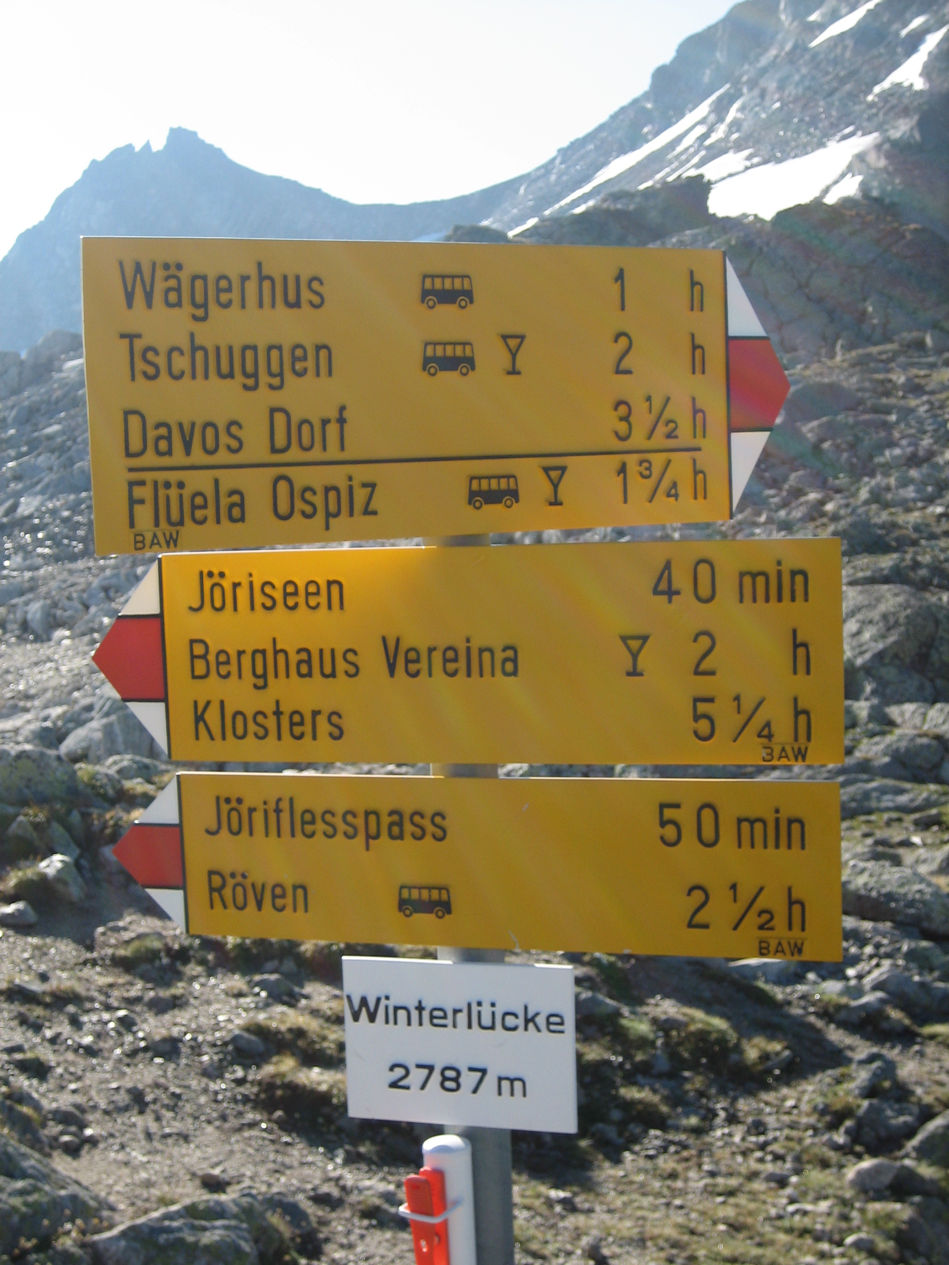 Fingerpost on Winterlücke (Davos / Klosters-Serneus, Grison, Switzerland)